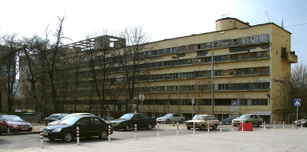 Narkomfin Buildings in Moscow, March 2007. Some residents still living there.